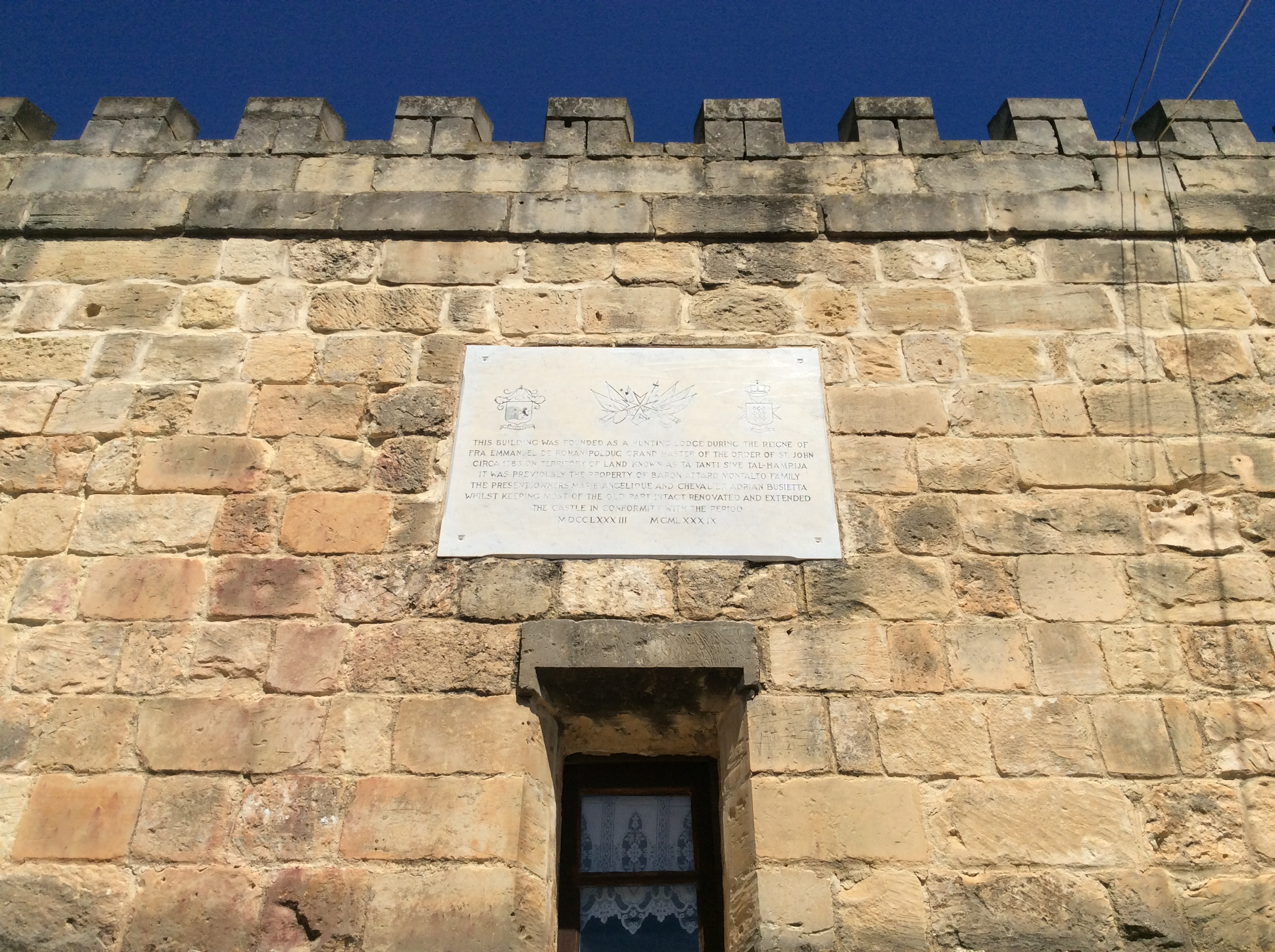 Castello dei Baroni